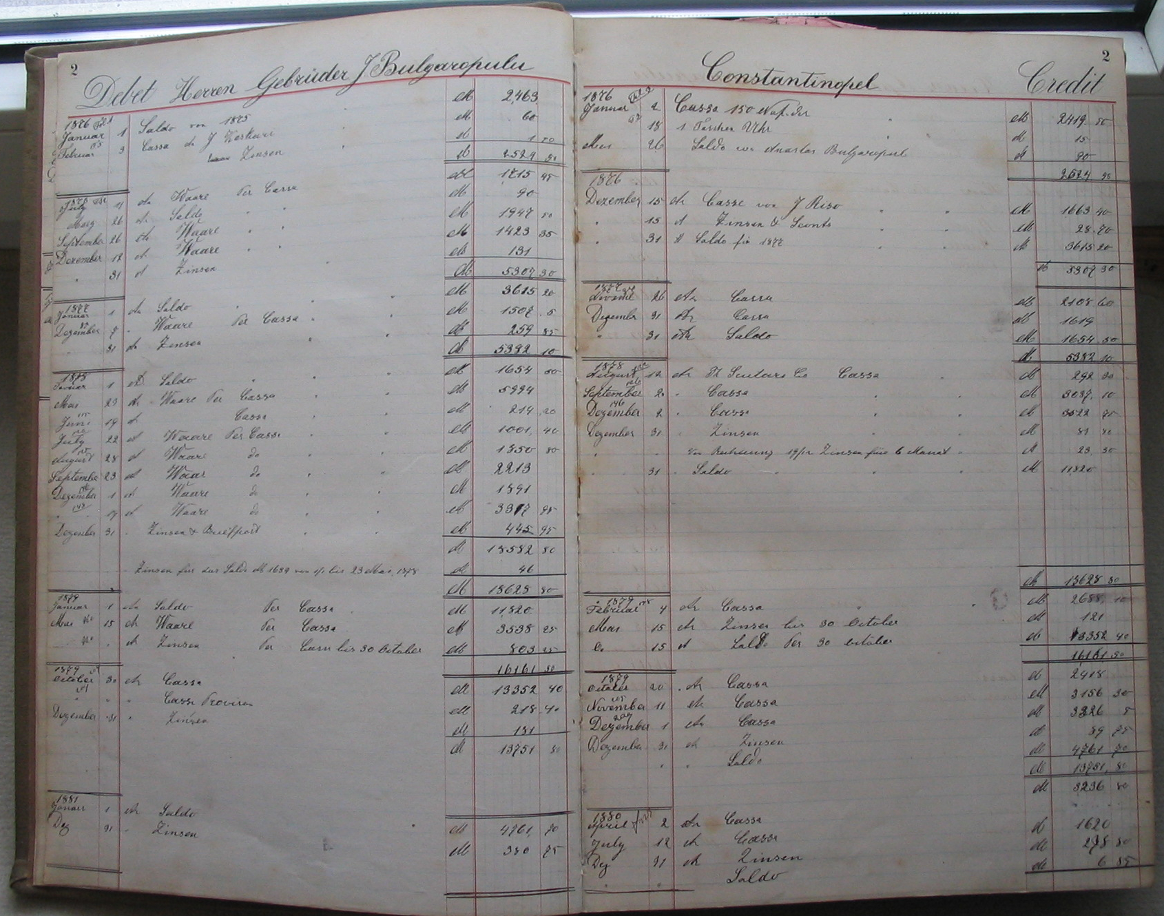 Ledger of a wholesale fur dealer, Germany, Leipzig